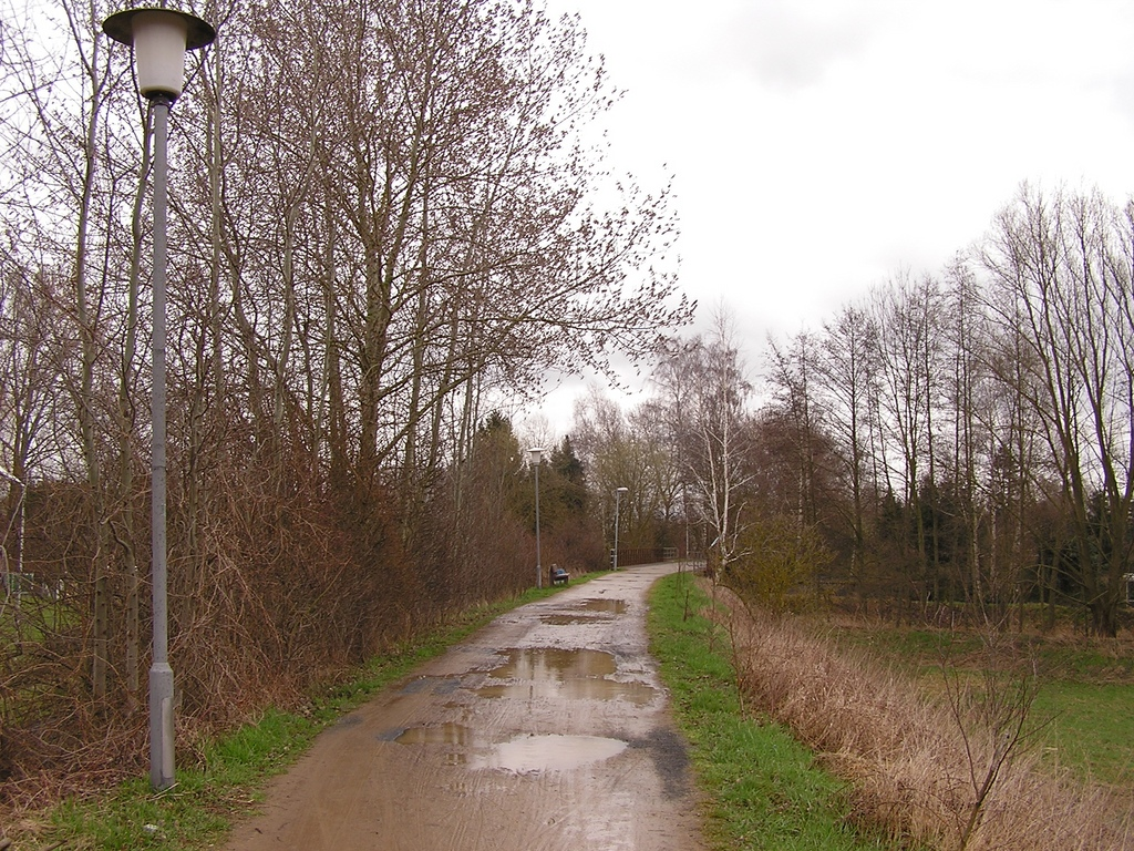 Bicycle route on the former Rodgaubahn near Dieburg